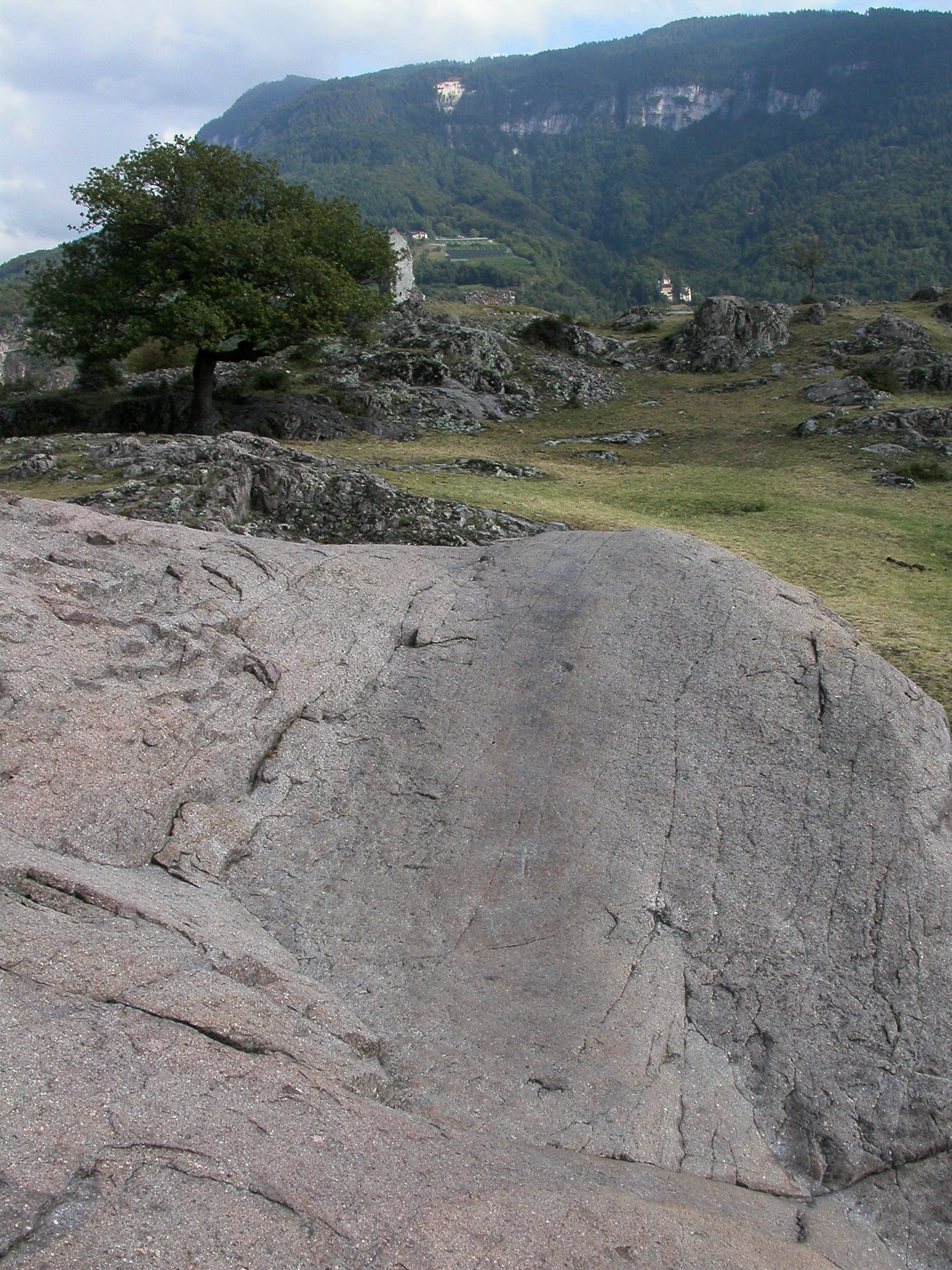 Fertility rock Heidenrutsche, Castelfeder, Auer, Southern Tyrol, Italy